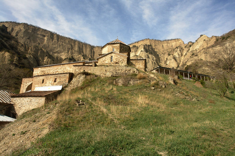 The Shio-Mgvime Monastery